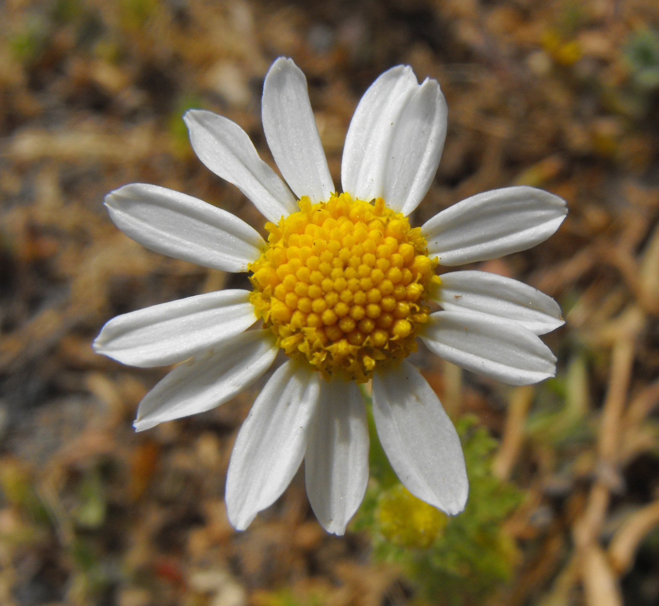 Anthemis cotula at Los Peñasquitos Canyon Preserve, northern San Diego, Southern California.